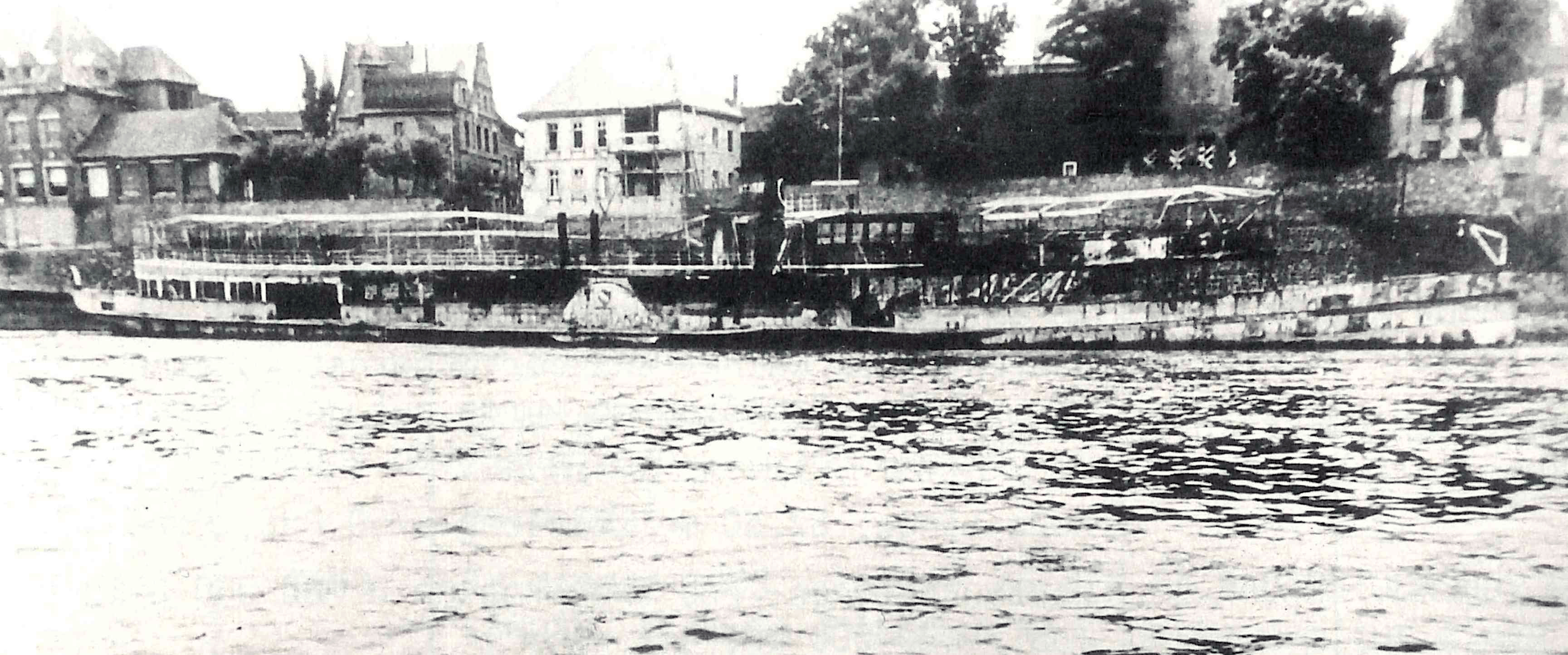 Paddle Steamer Rheinland